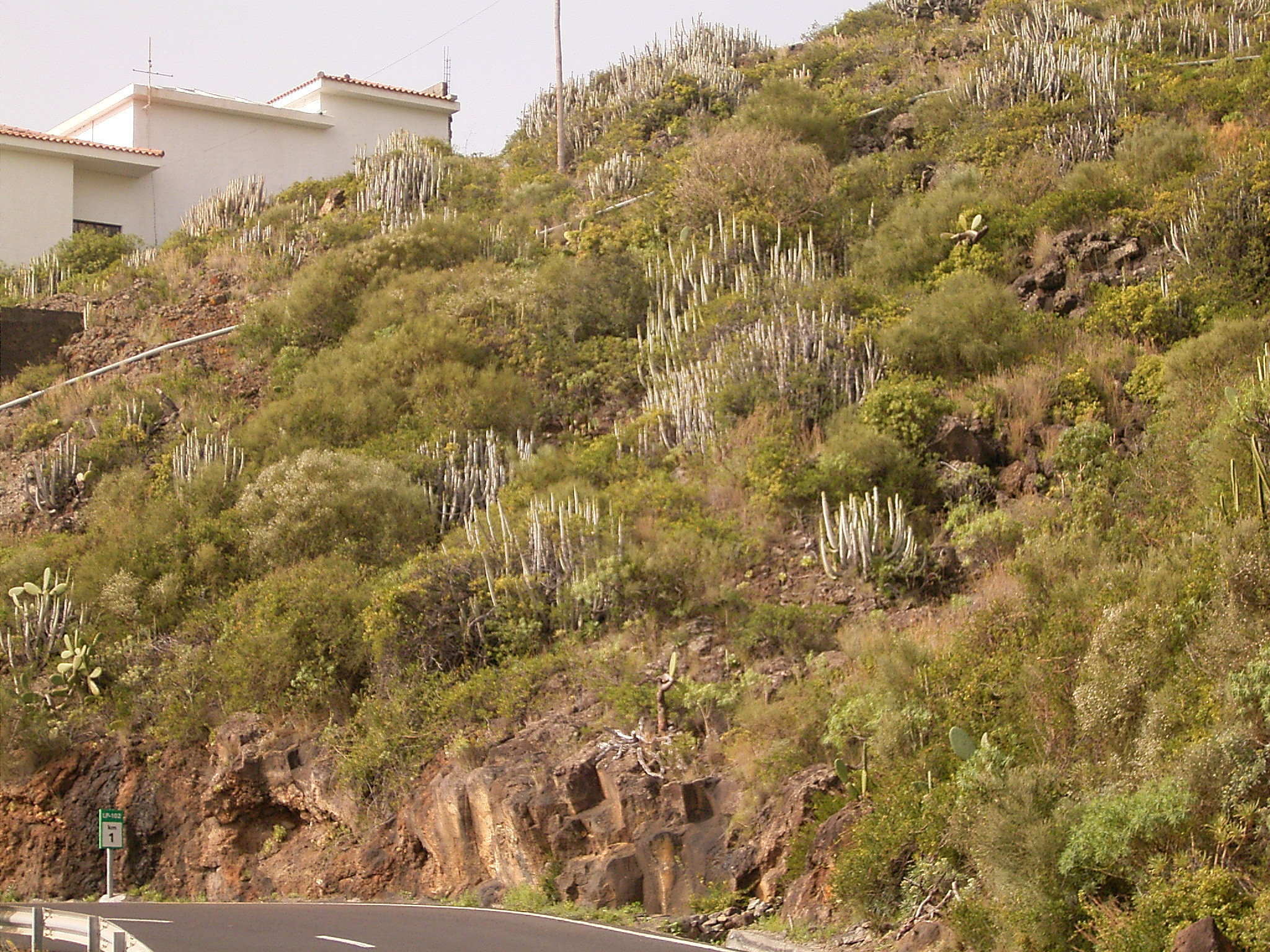 Euphorbia canariensis growing in Puntallana, La Palma, Canary Islands